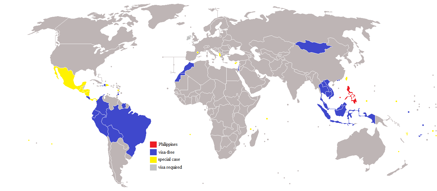 Updated Philippine Visa Free Requirements March 2013